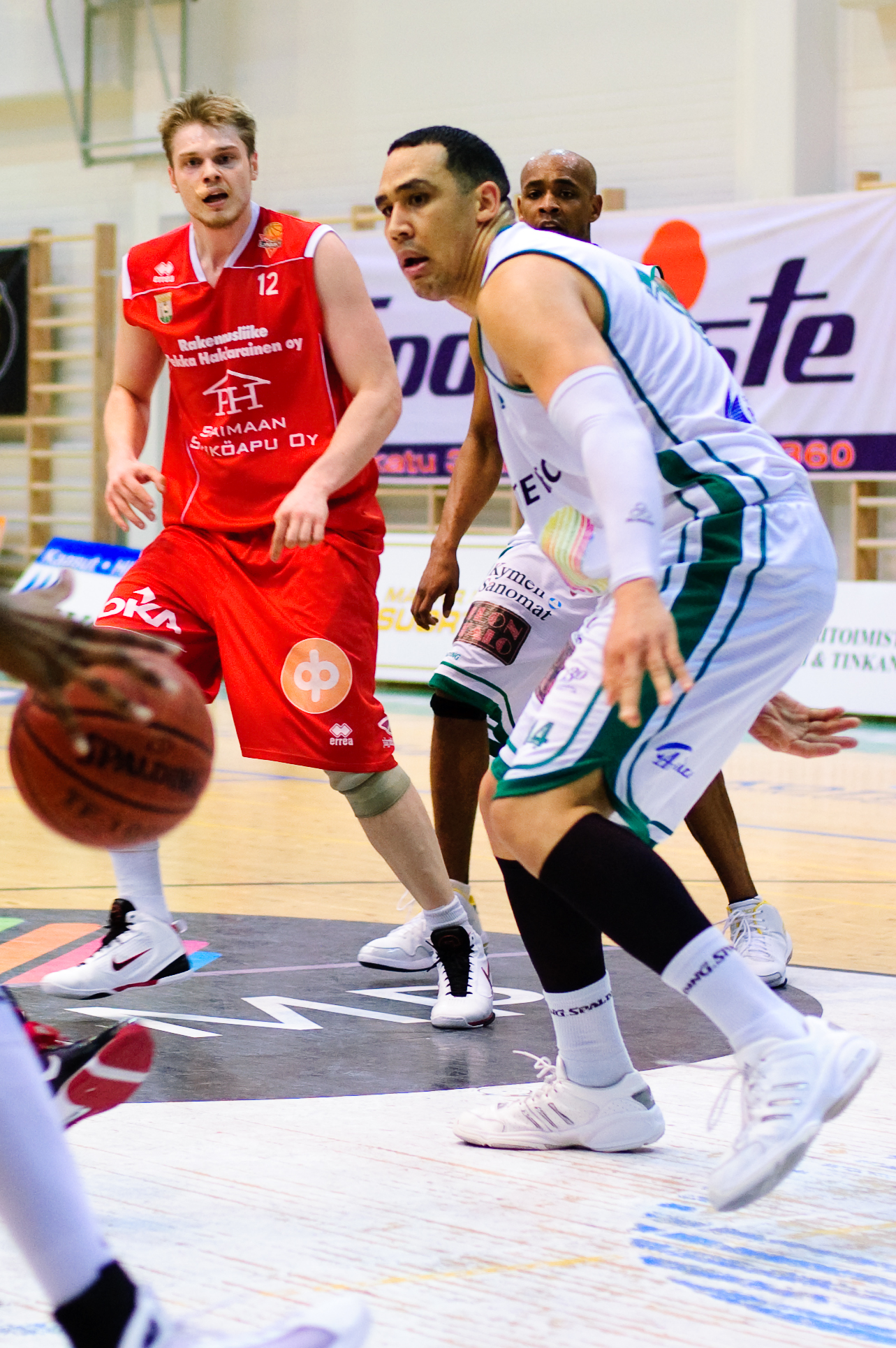 Finnish basketball players Clifton Jones of KTP-Basket (right) and Sami Pekkola of Lappeenrannan NMKY playing at Steveco Areena in Kotka, Finland. KTP-Basket won the Finnish Basketball league playoff game 106-70 and advanced to the semi-final round by winning the series 3-0.